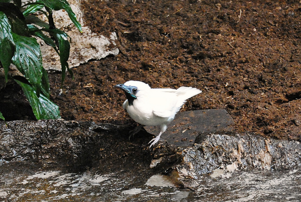 A Bare-throated Bellbird at Barcelona Zoo, Barcelona, Catalonia, Spain.